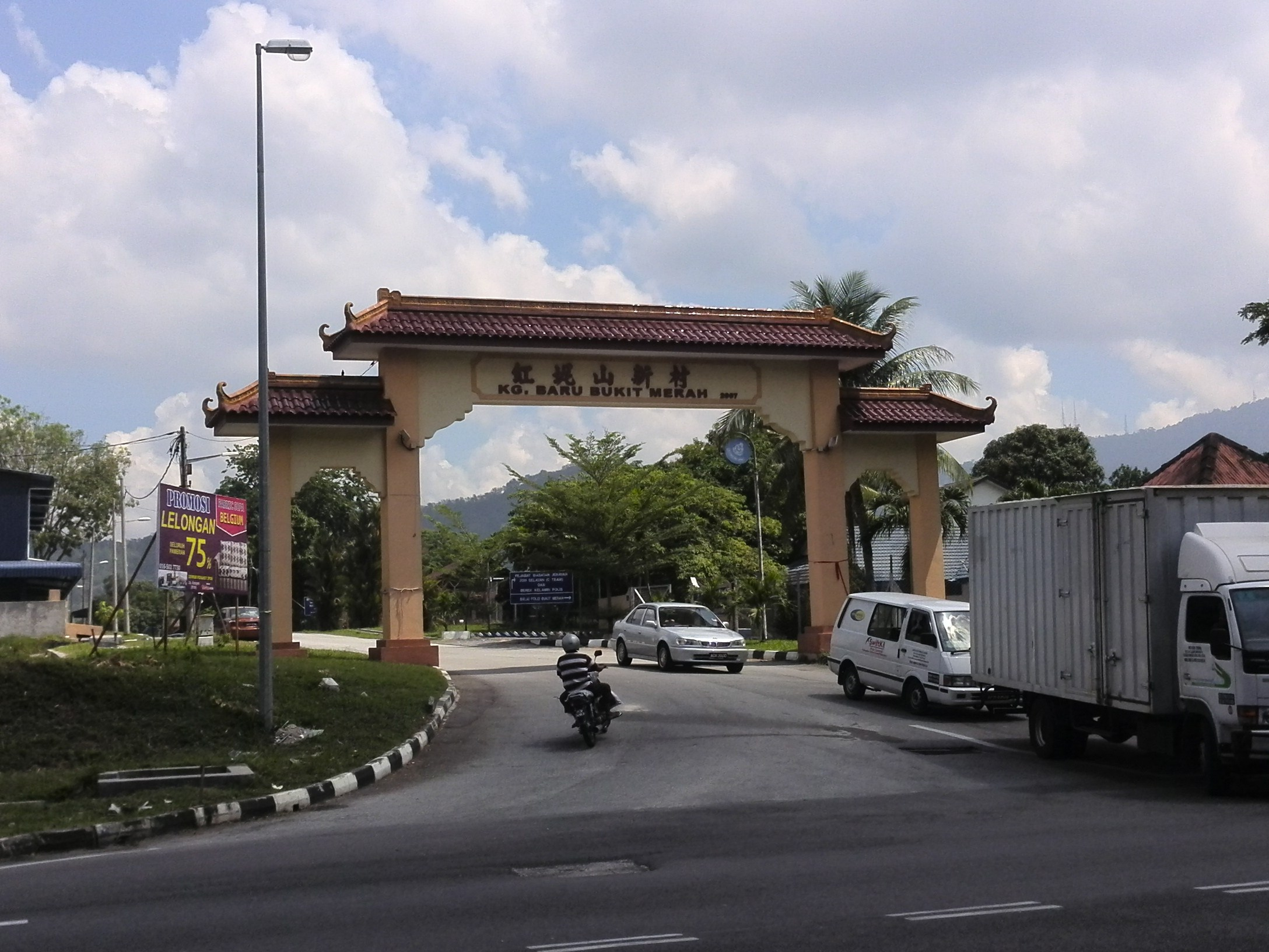 This is the main entrance of Bukit Merah New Village which located at Ipoh, Perak, Malaysia.